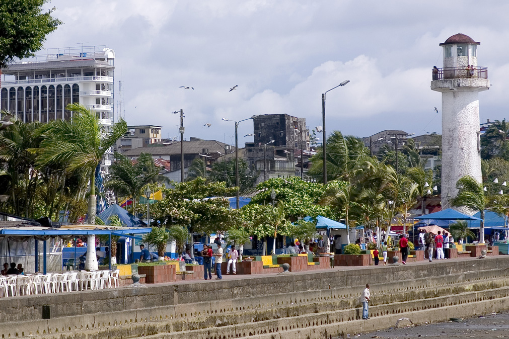 Park beside the main jetty. Buenaventura, Valle del Cauca, Colombia.